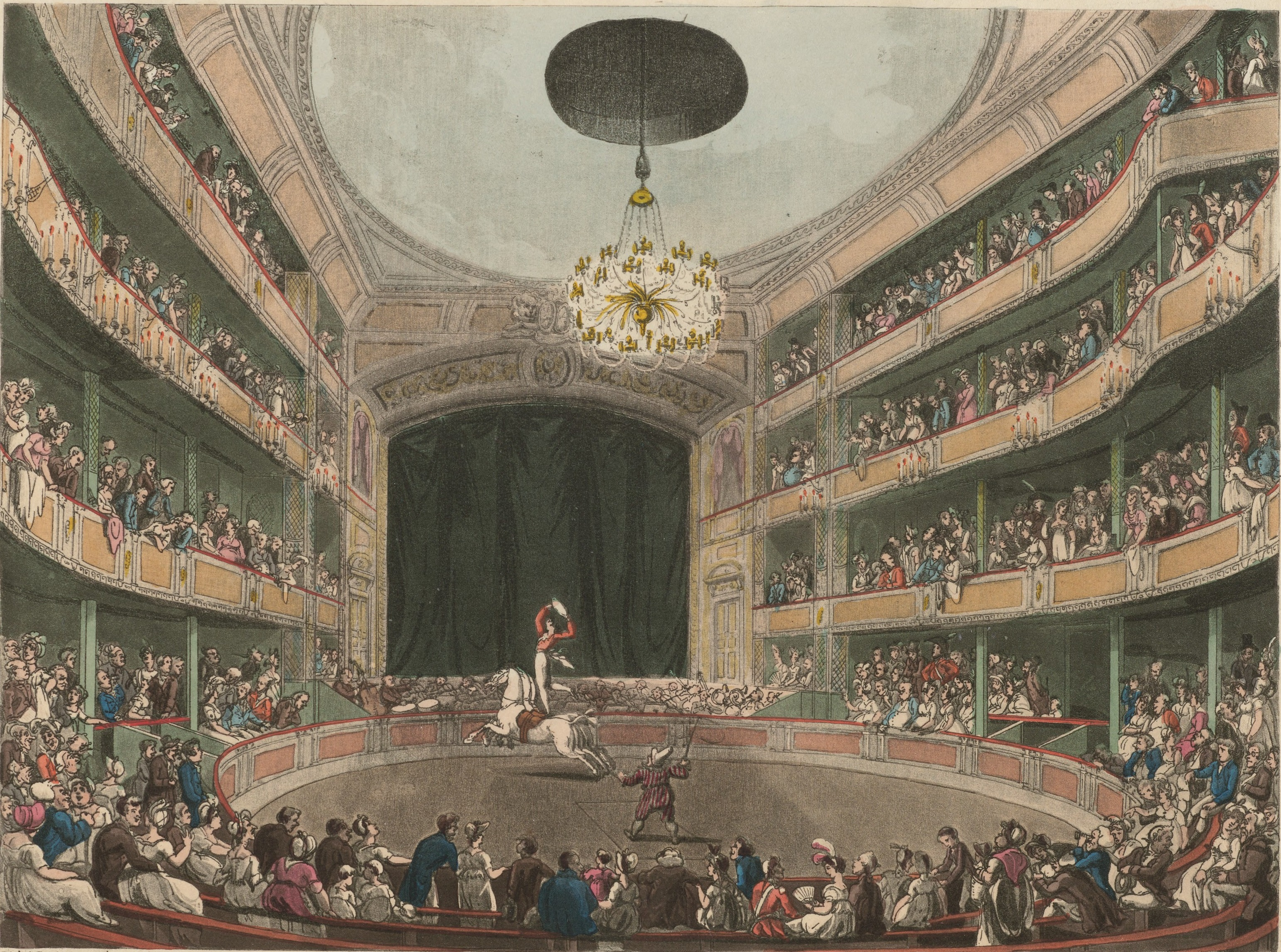 "Astley’s Amphitheatre" colored plate from Microcosm of London, 1808. *57-1633, Houghton Library, Harvard University